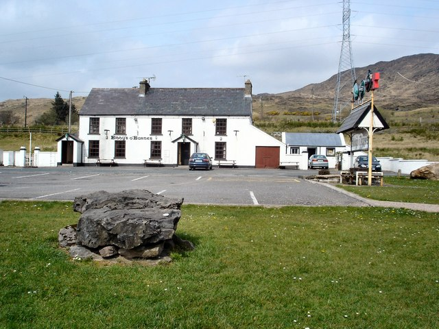 Biddy's Pub, Barnes Gap Biddy's Pub in the Barnes Gap used to be on the right hand side of the narrow twisty road from Ballybofey to Donegal town and was a popular landmark. The new wide road now passes behind it.